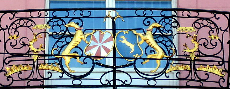 Arms of the Bassenheimers on the Palais Bassenheim in Mainz